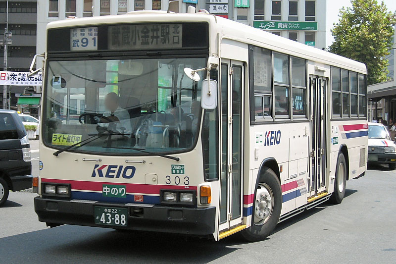 Keio Bus Koganei's route bus (Car No.G19303 / Isuzu Cubic U-LV324L / IK Coach body) at Chofu Station, Tokyo, Japan